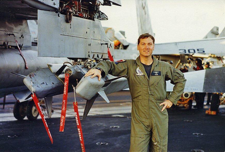 Jeff Greer with TALD he would drop on Night One